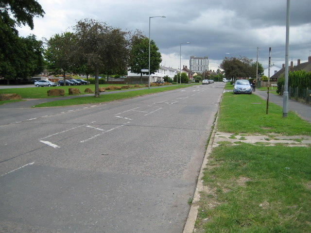 Aylesbury: Prebendal Avenue, California The boulders separating the road from the grass are a common sight in Aylesbury and have been introduced to deter the travelling community from setting up camp on the greens. As ever the County Tower looms large...